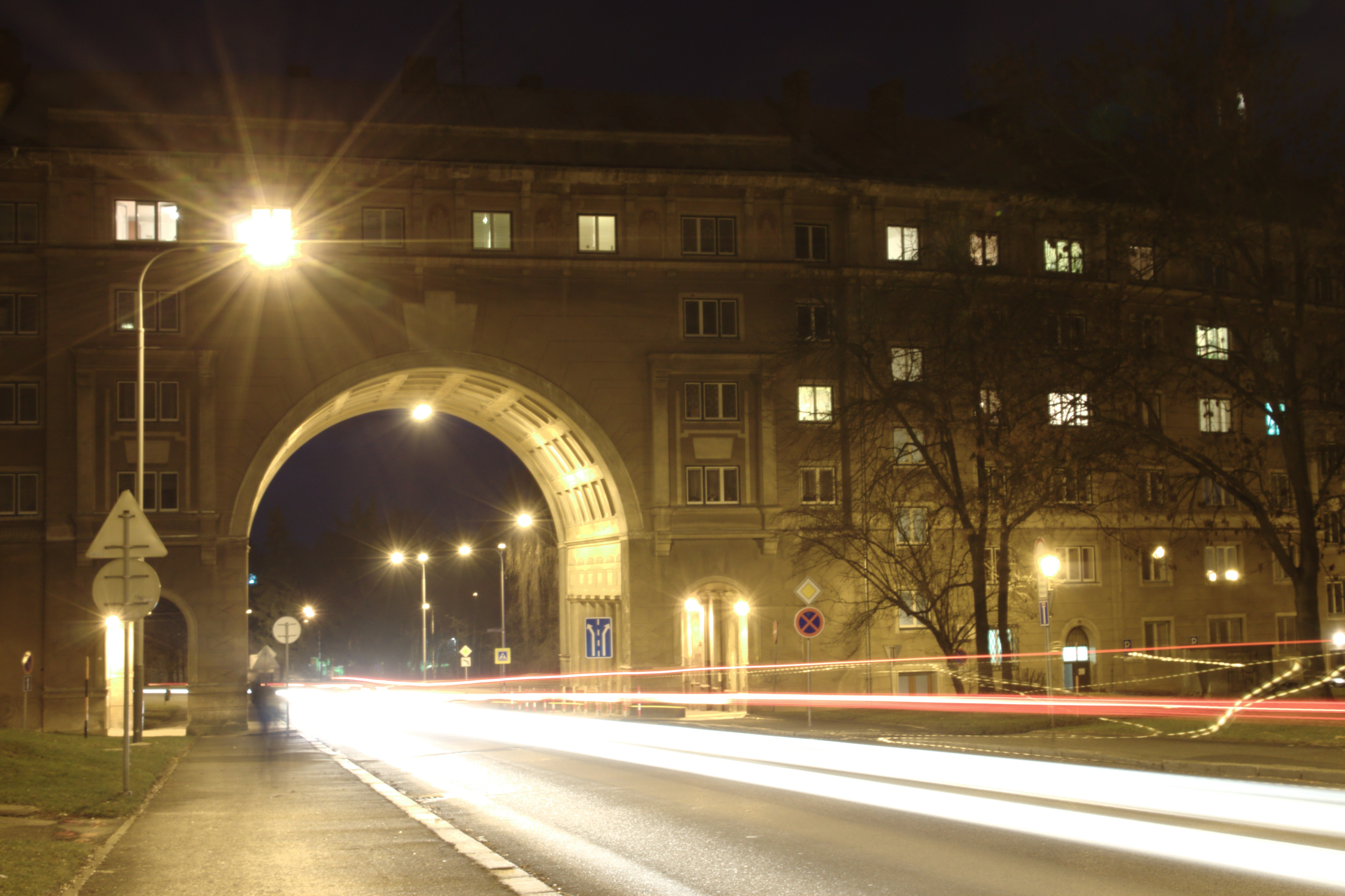 An arch-shaped builidng named Oblouk (the Arch) at night with Porubská Street running through it. Ostrava, CZ Project: Fotíme Česko